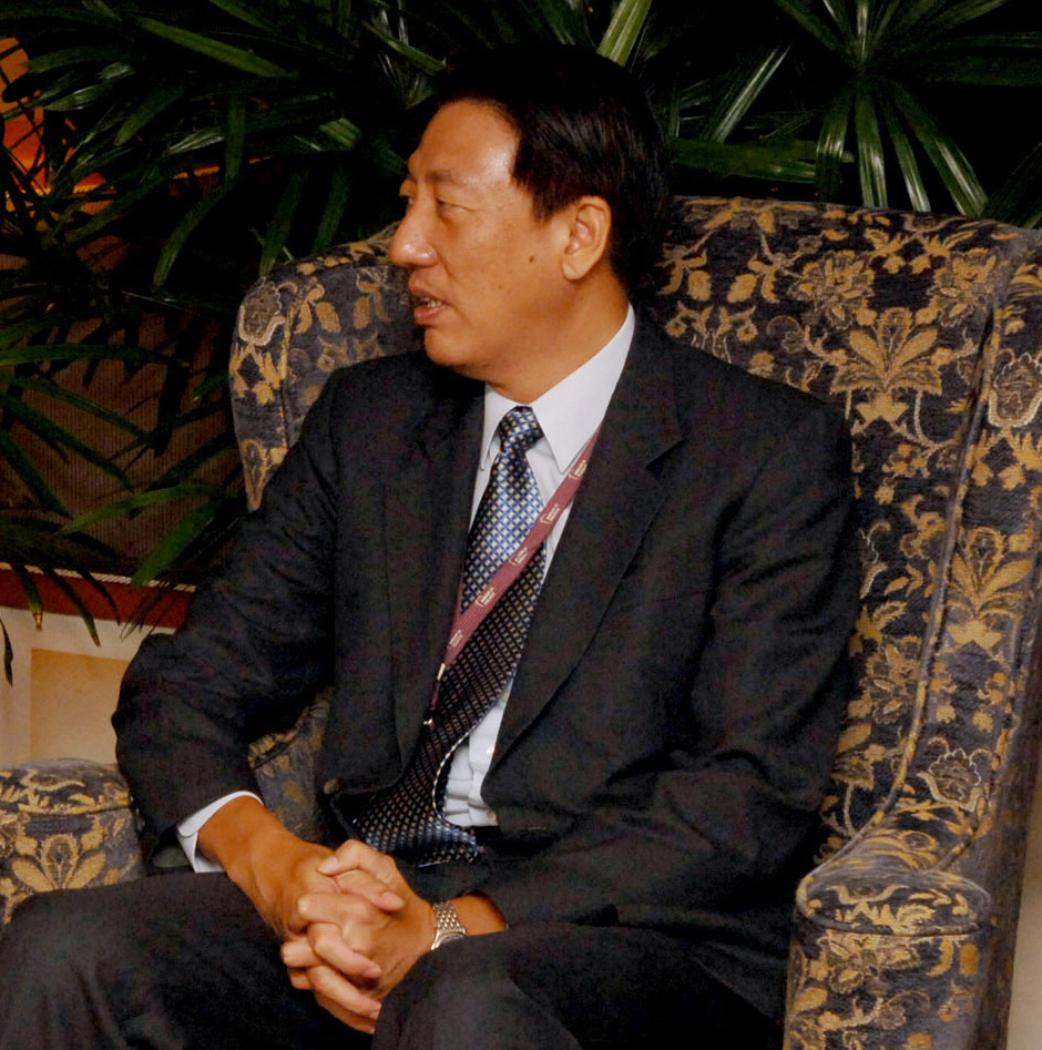 Teo Chee Hean (simplified